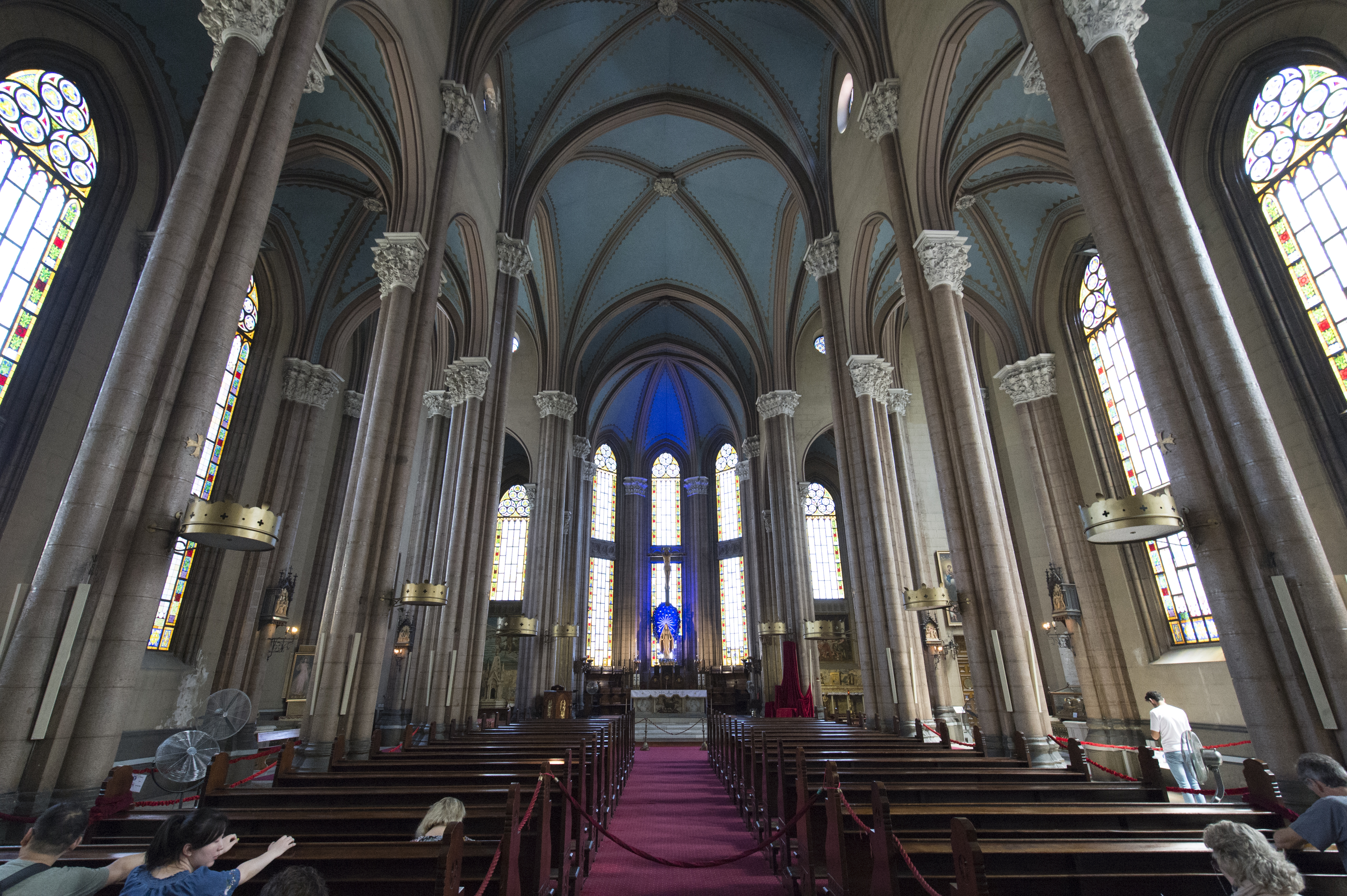 Wide angle picture stressing its height